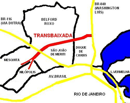 Transbaixada, Brazilian road